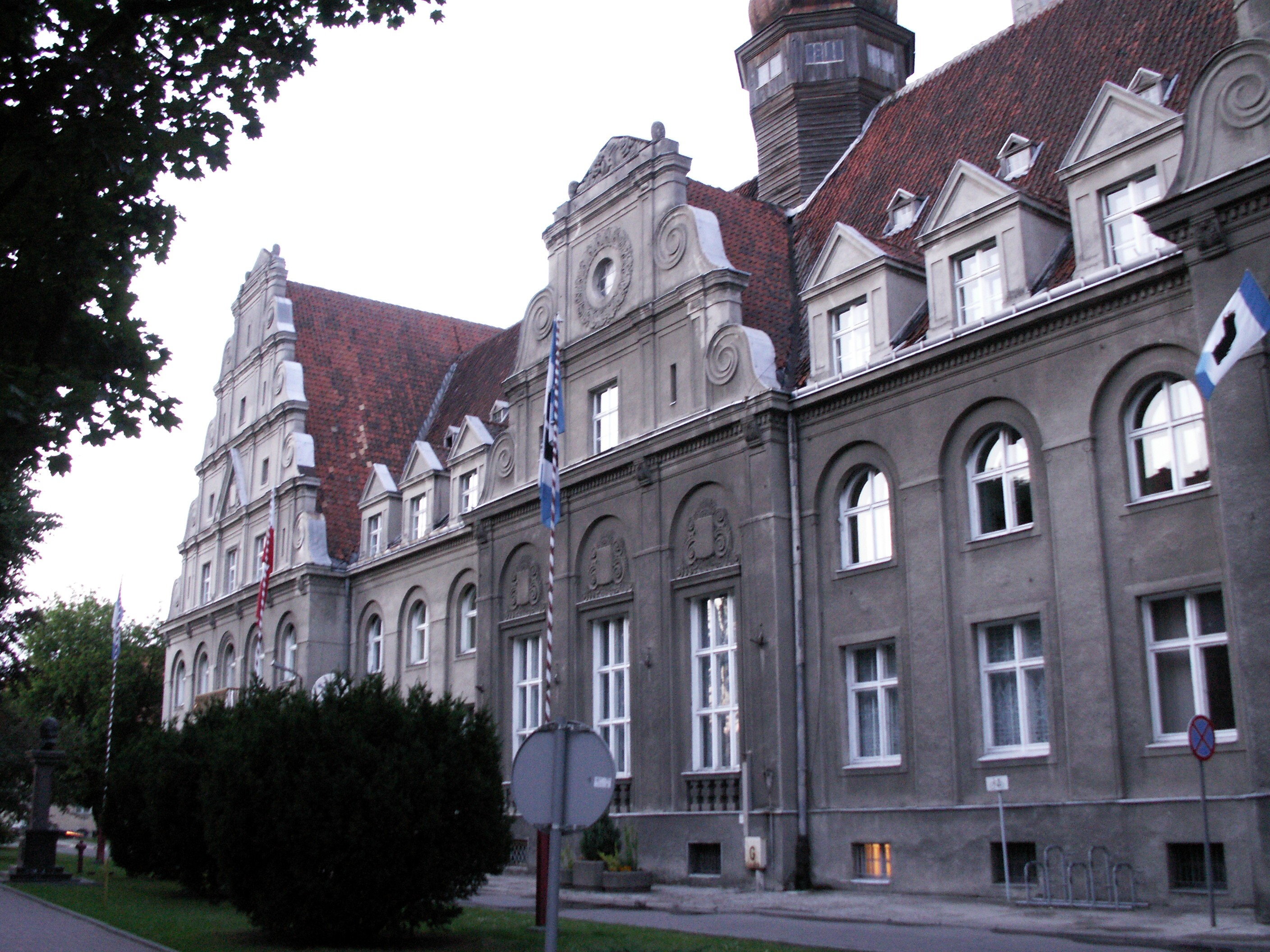 Mrągowo, Poland